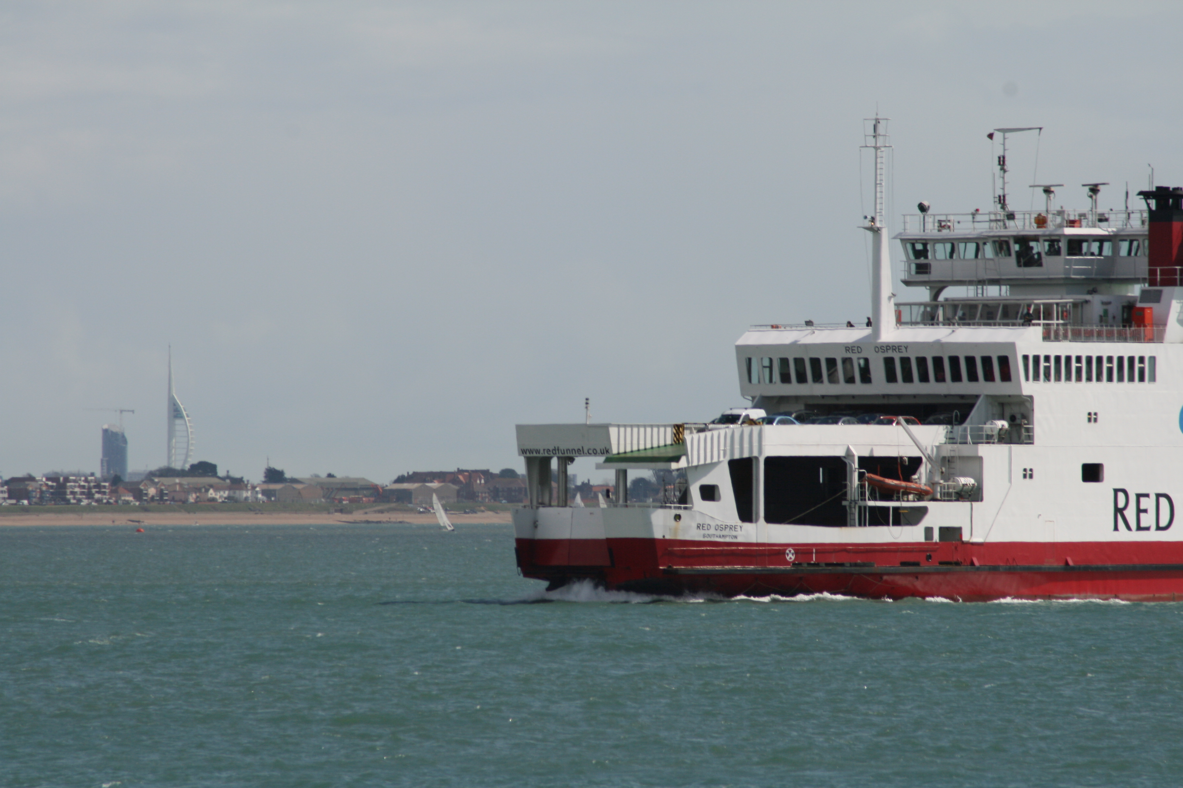 The Spinnaker Tower in Portsmouth, seen from Calshot spit.